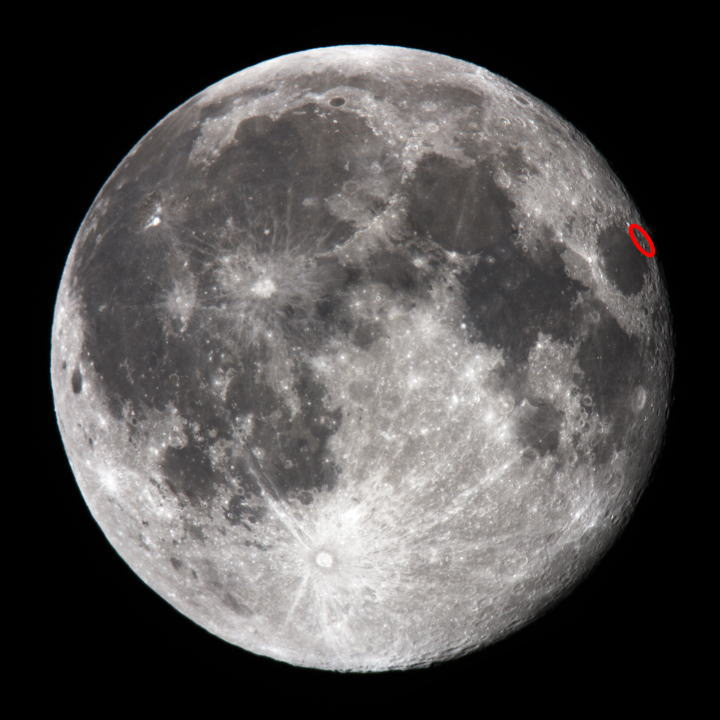 The Location of Mare Anguis, One of the Lunar Geographical Features.